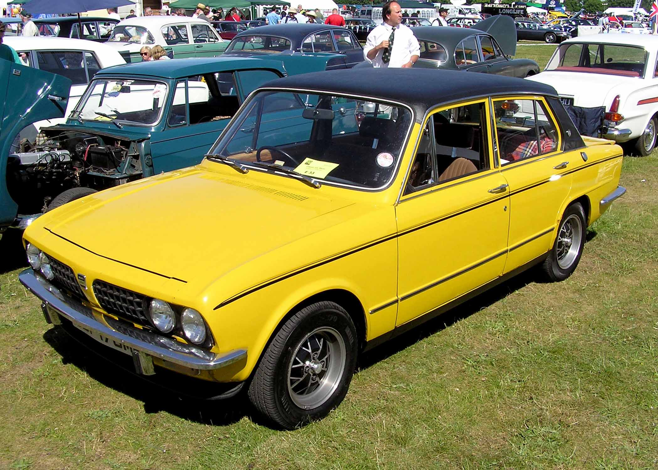 1973 Triumph Dolomite Sprint at Bristol Car Show, The Downs, Bristol, England.